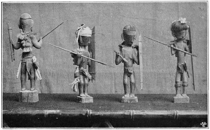 Anitos of the Igorotes (c. 1900, Philippines)